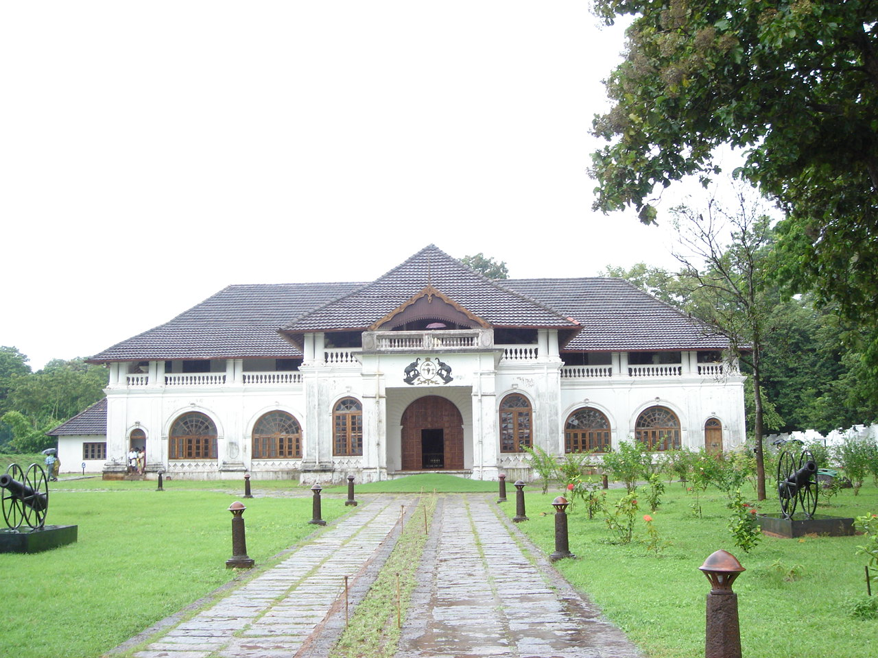 Shakthan Thampuran Palace in a rainy day.